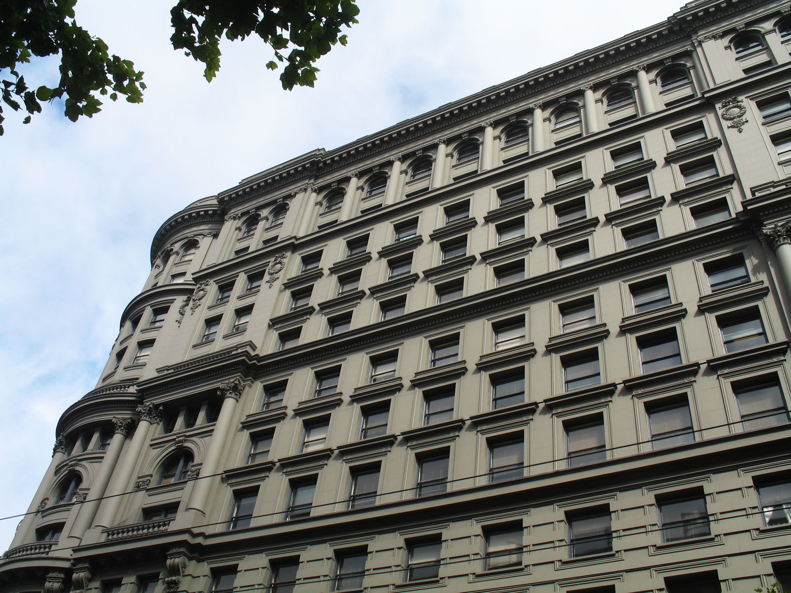 A beautiful old thing at Powell and Market, restored several years ago.